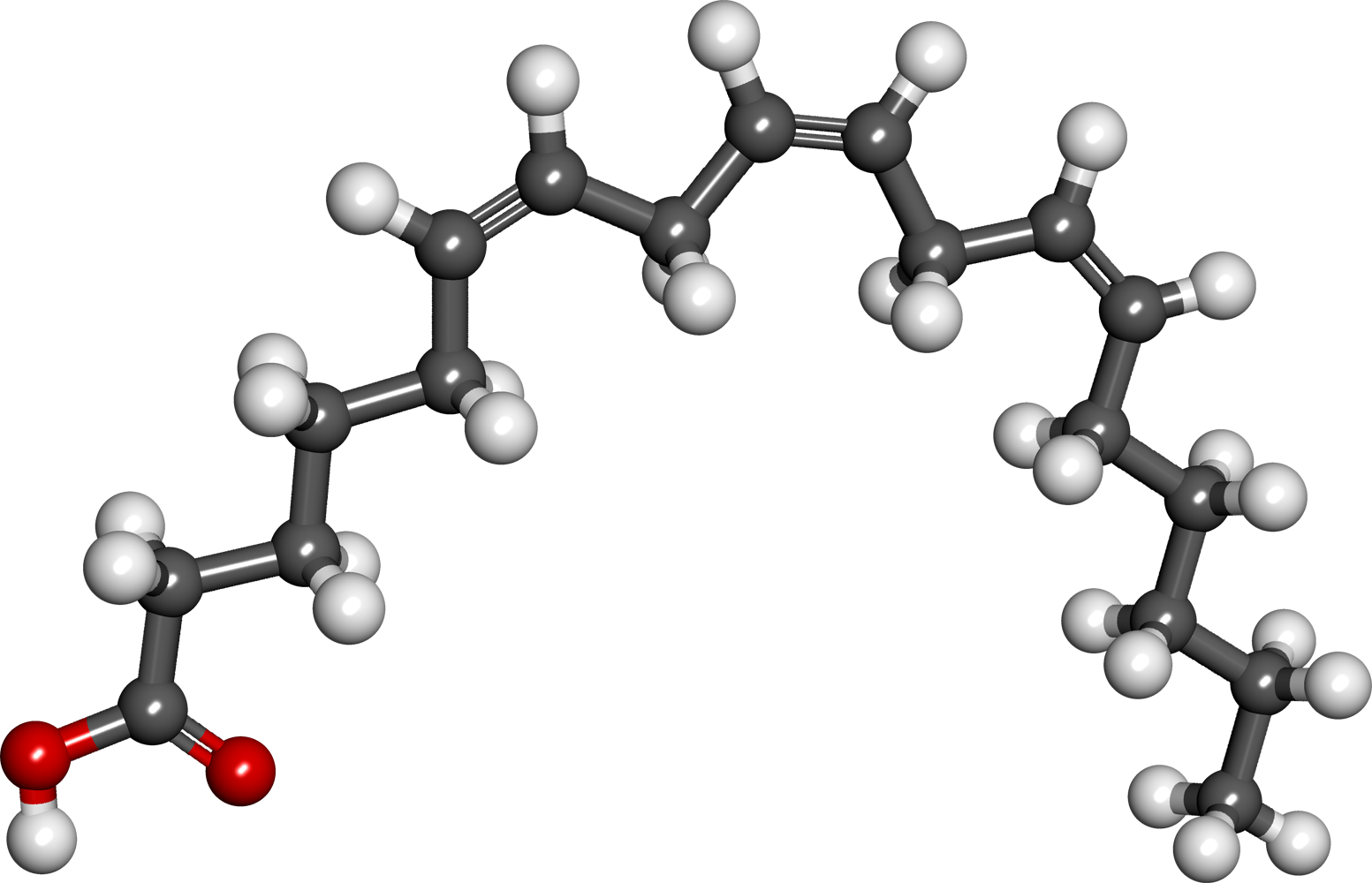 A ball-and-stick diagram of gamma-linolenic acid.